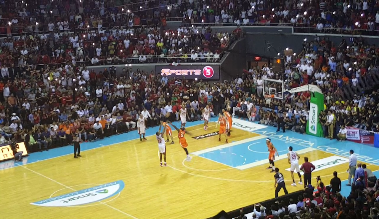 PBA - Brownlee shot - 2016 Governors' Cup Finals - Barangay Ginebra vs Meralco (Game 7) - 2016-1019